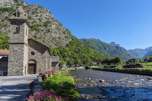 Eglise